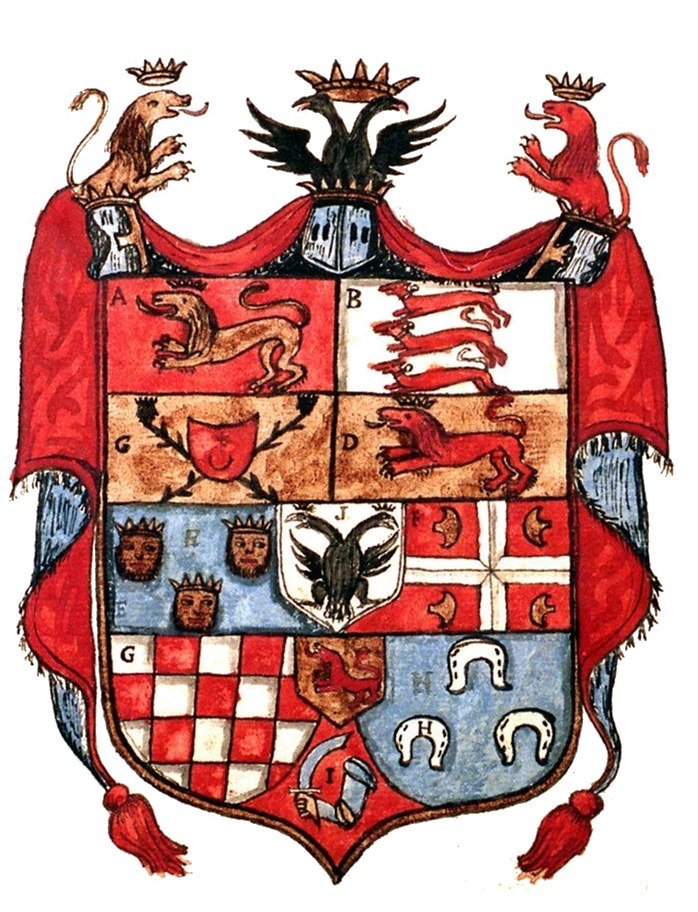 combined coat of arms from the Fojnica Armorial.